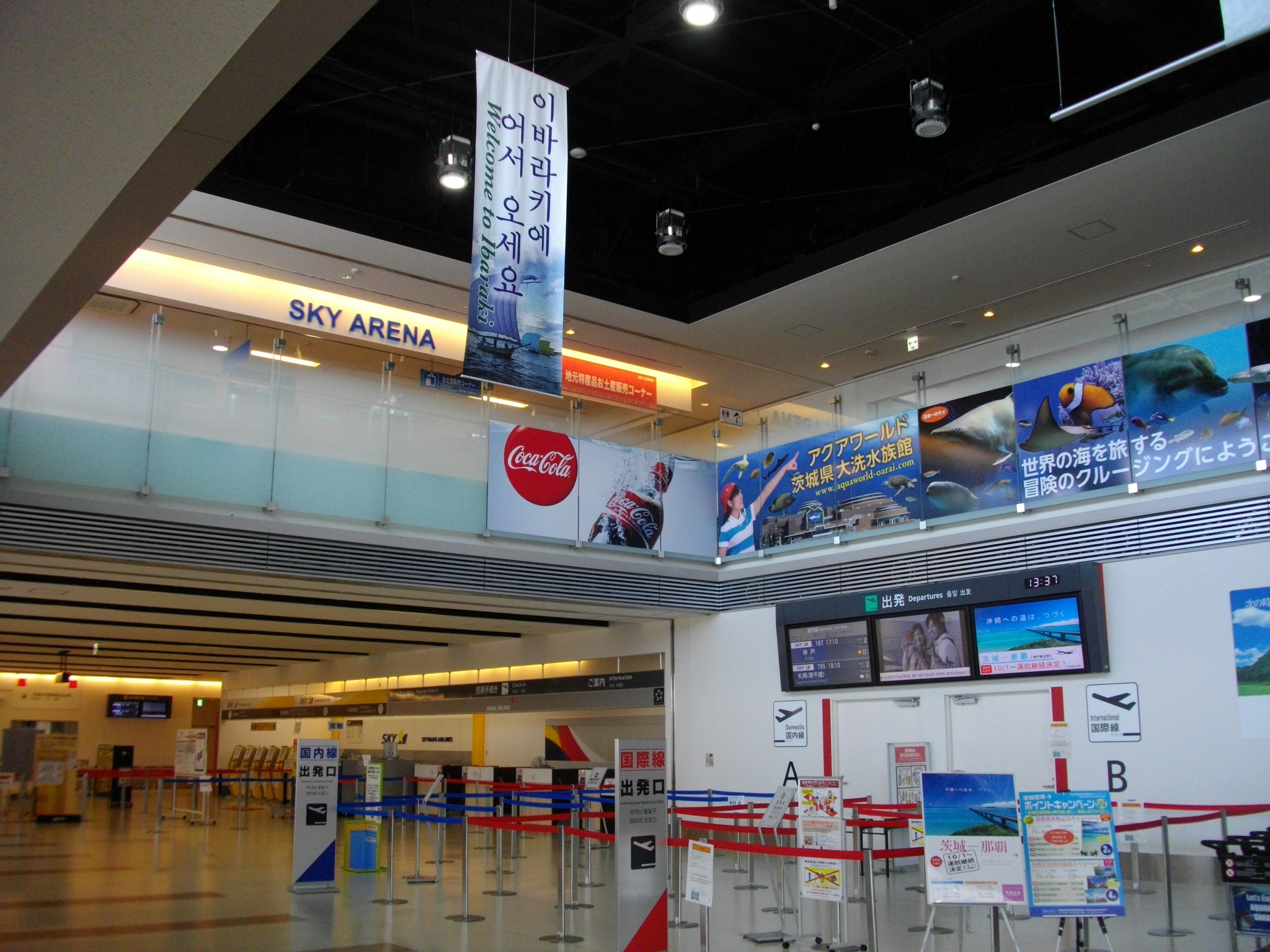 Ibaraki Airport interior